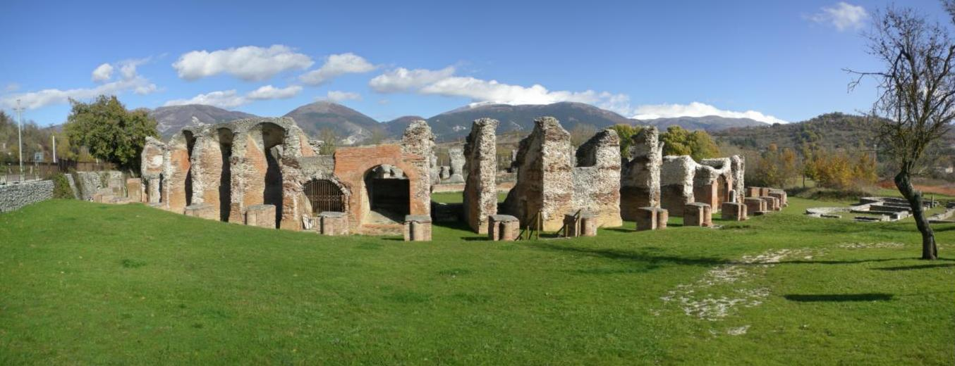 The amphitheatre of the ancient city of Amiternum, near L'Aquila